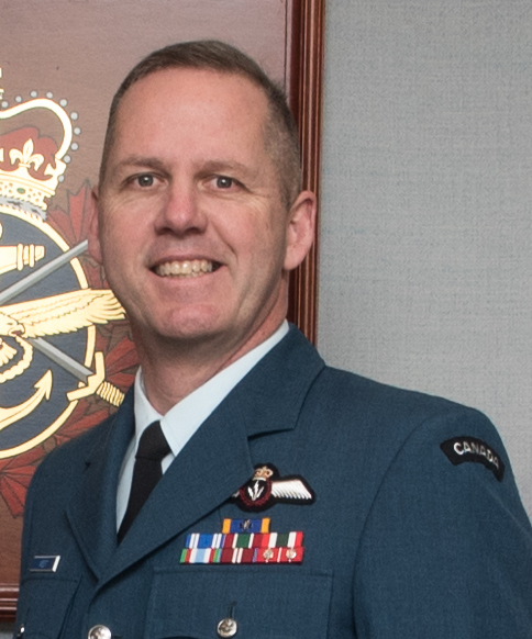 U.S. Army Command Sgt. Maj. John W. Troxell, Senior Enlisted Advisor to the Chairman of the Joint Chiefs of Staff, and Canadian Chief Warrant Officer Kevin C. West, Canadian Forces Chief Warrant Officer, pose for a photo before an office call during a visit to Ottawa, Canada, Feb. 28, 2018. Gen. Dunford was in Ottawa for meetings with senior Canadian officials on the ongoing evolution of the North American Aerospace Defense Command. (DoD Photo by U.S. Army Sgt. James K. McCann)